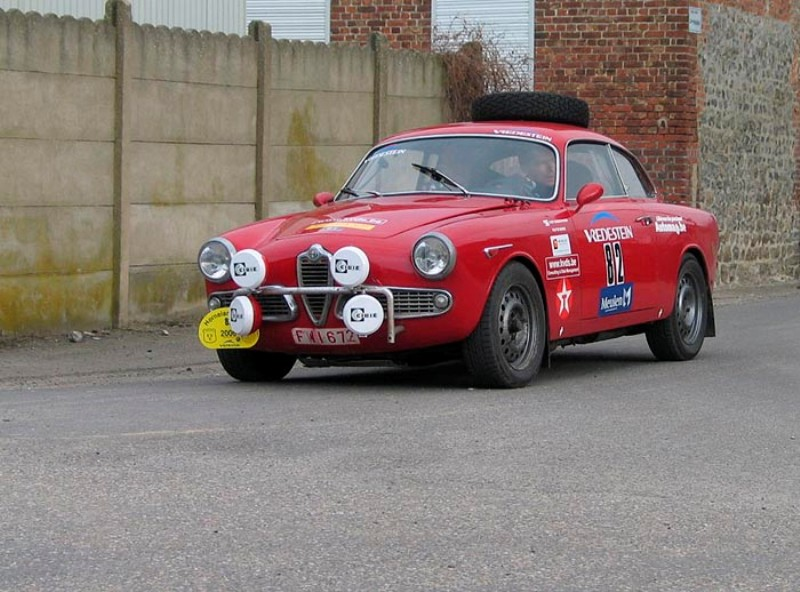 Kurt Vanderspinnen in a 1959 Alfa Romeo Giulietta Sprint